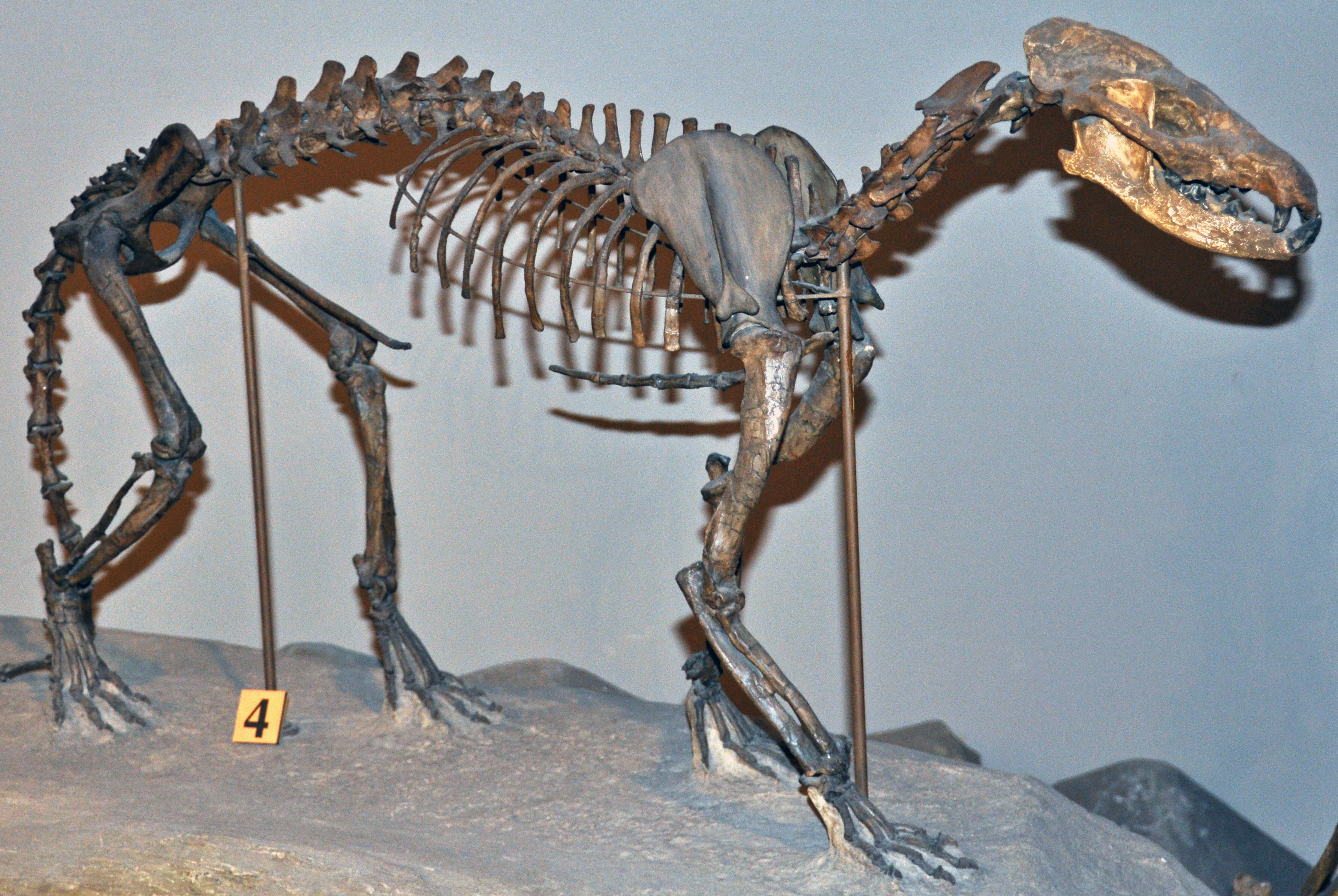 Daphoenus felinus Scott, 1898 - fossil mammal skeleton from the Middle Oligocene of Nebraska, USA. (CM 492, Carnegie Museum of Natural History, Pittsburgh, Pennsylvania, USA) This species is considered by some to be a junior synonym of Daphoenus vetus. From museum signage: "This giant bear-dog, although distantly related to modern dogs, was more like a bear in its habits." Classification: Animalia, Chordata, Vertebrata, Mammalia, Carnivora, Caniformia, Amphicyonidae Locality: Cedar Creek area, Hat Creek Basin, Sioux County, northwestern Nebraska, USA See info. at